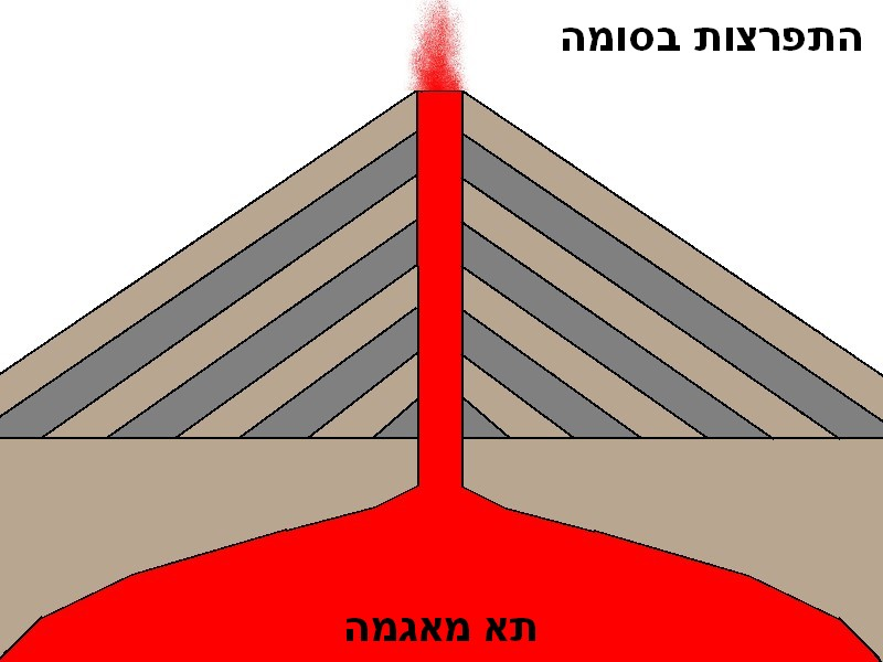 Formation of Vesuvius - stage 1/3